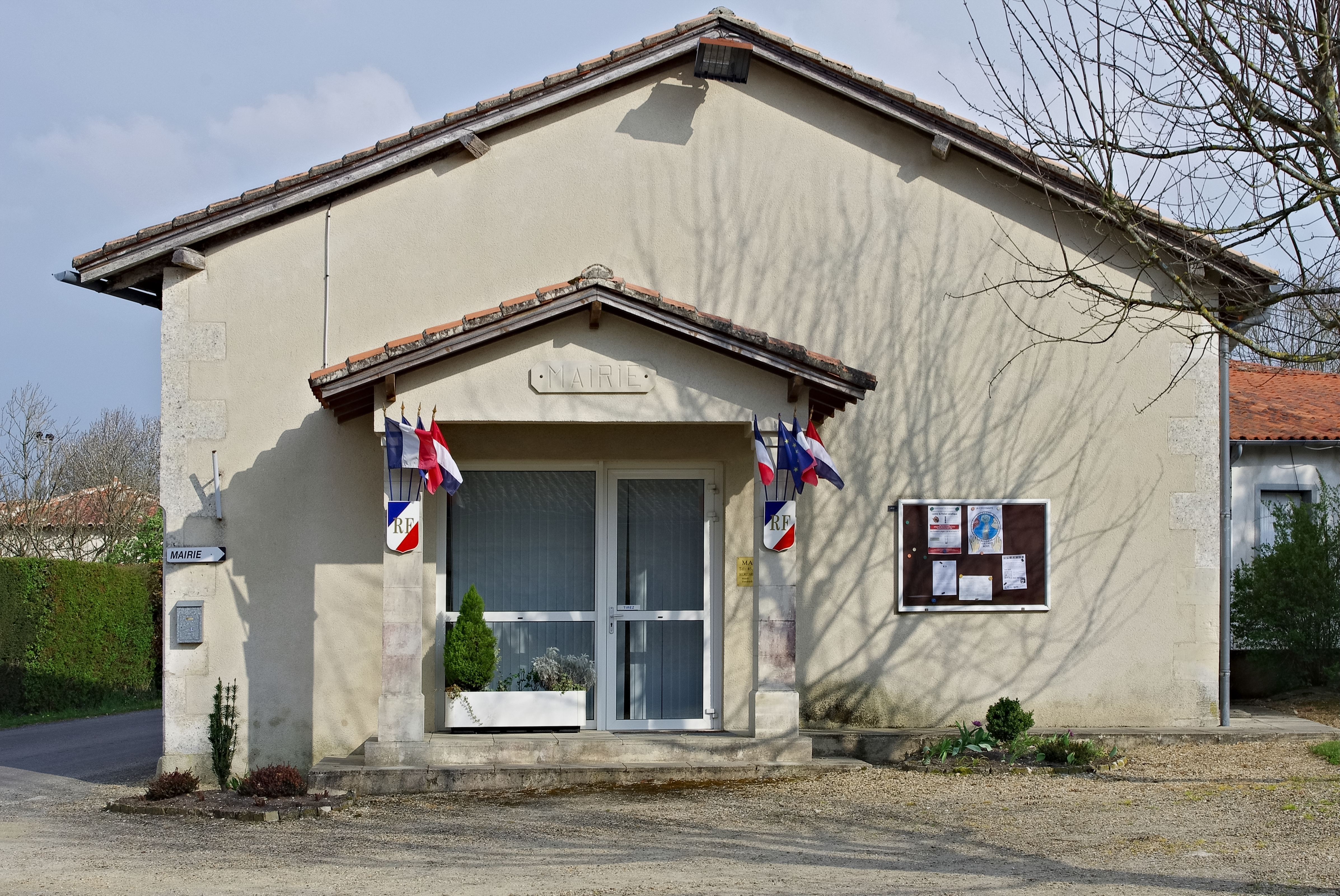 Town hall of Poullignac, Charente, France.